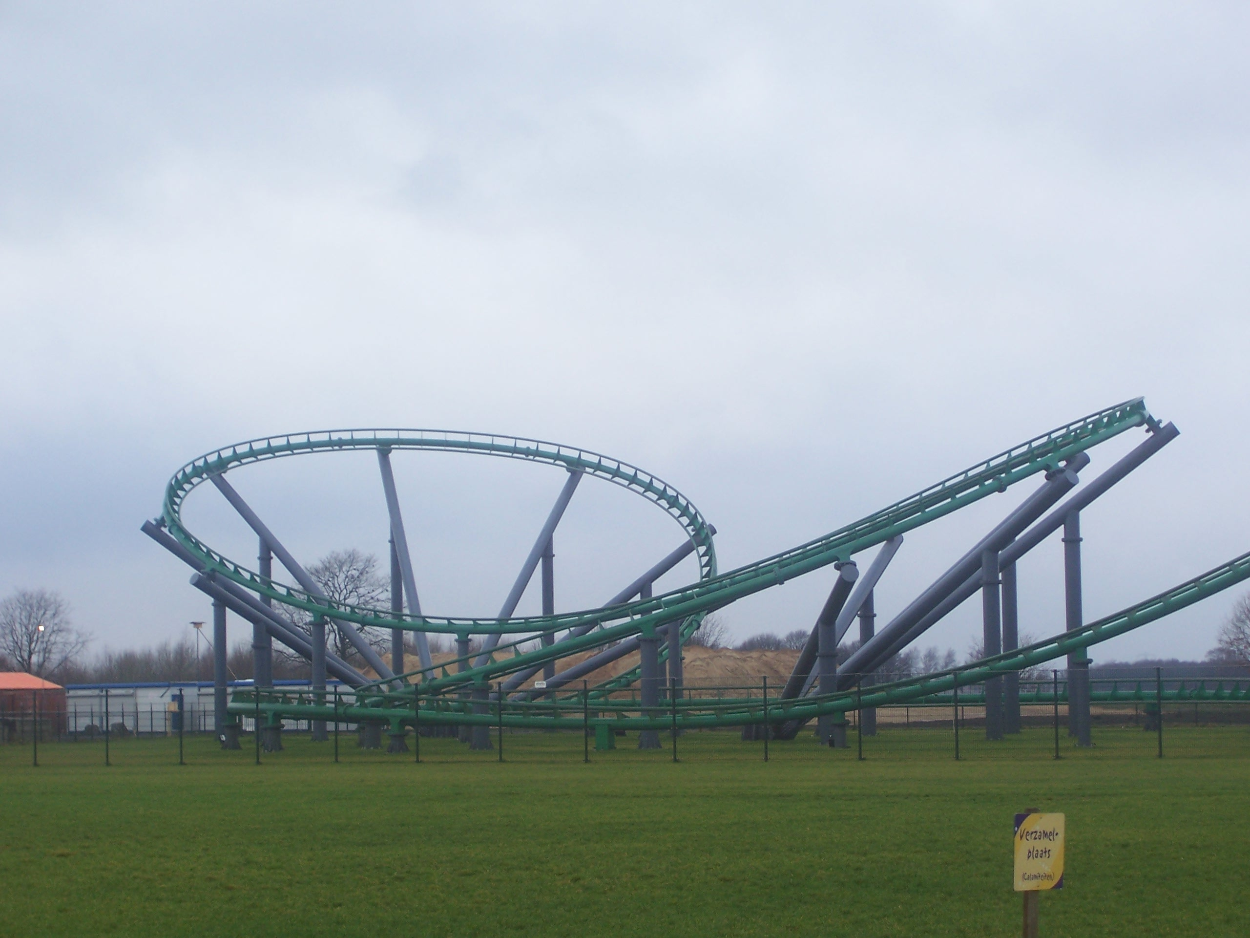 Booster Bike, Sevenum (Netherlands)